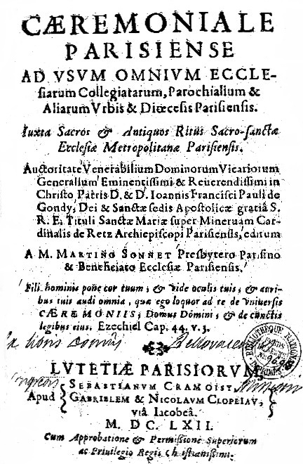 Cropped, adjusted version of PD image of 17th Century text available through BNF and Gallica